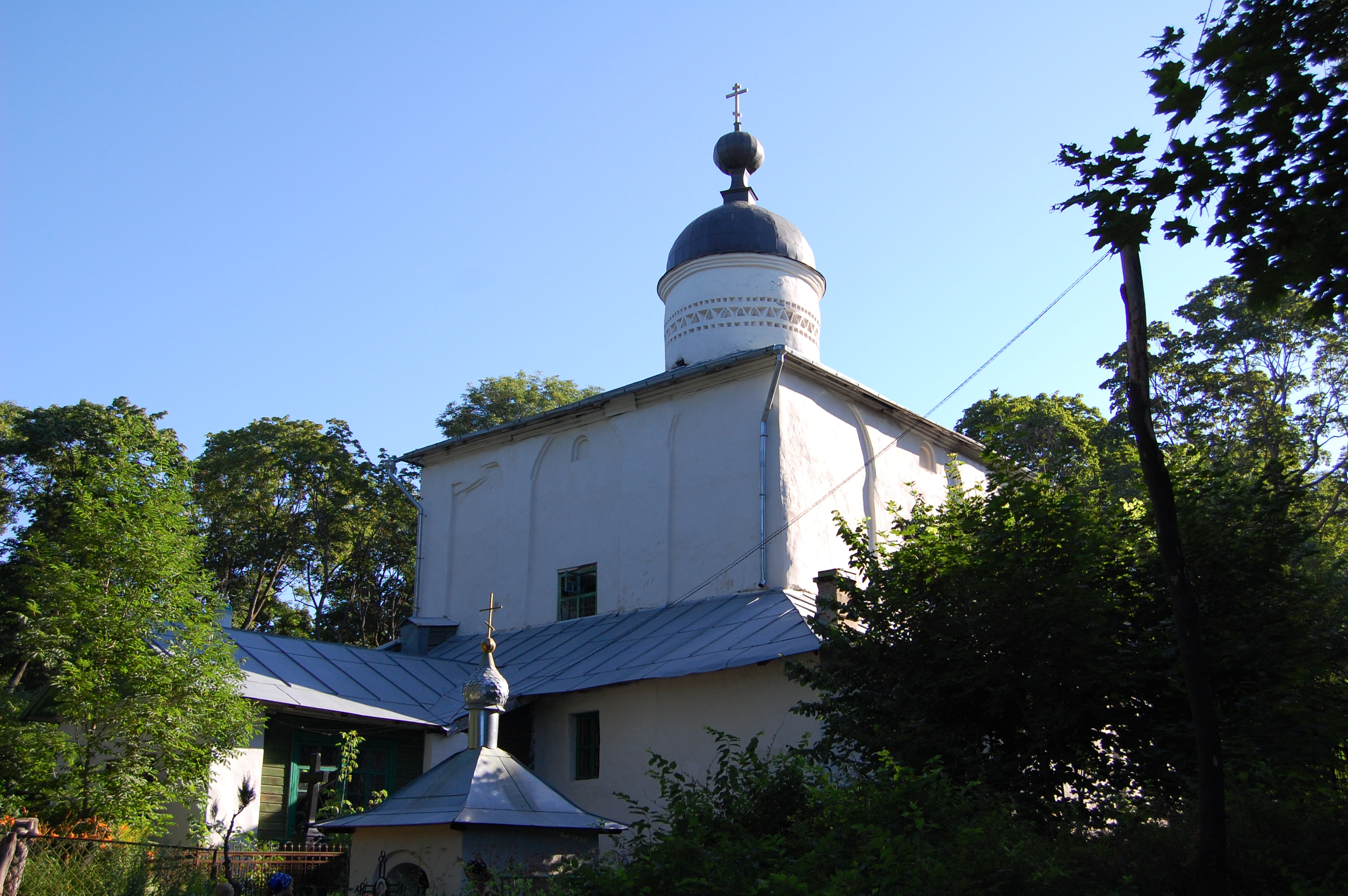 The Saint Myrrhbearers Church in Pskov